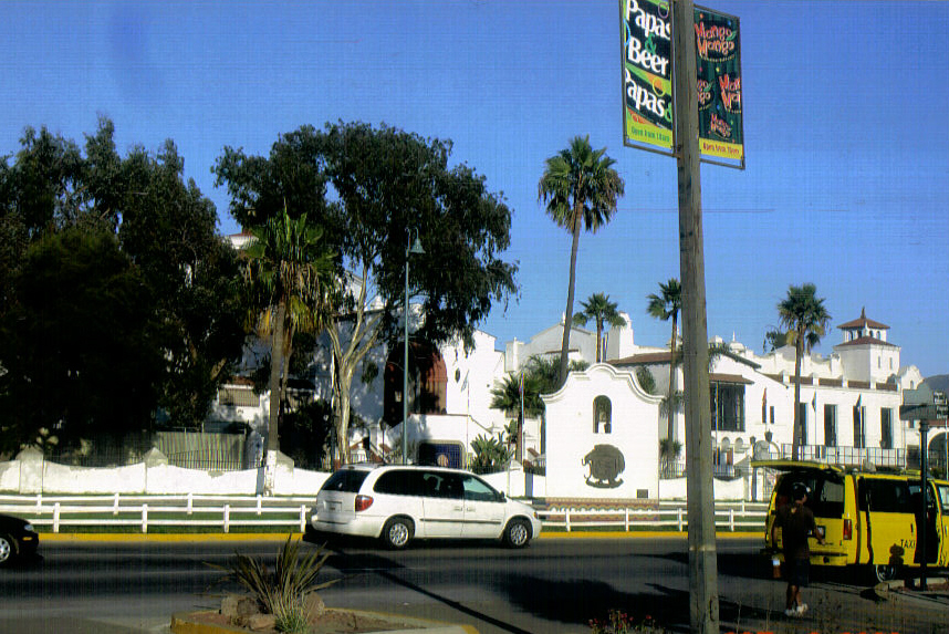 Riviera del Pacifico Cultural and Convention Center (once known as the Hotel del Pacifico) built in 1930 as a gambling casino supposedly financed by Al Capone and managed by Jack Dempsey. Its clientele included Myrna Loy, Lana Turner and Dolores del Rio.[1]